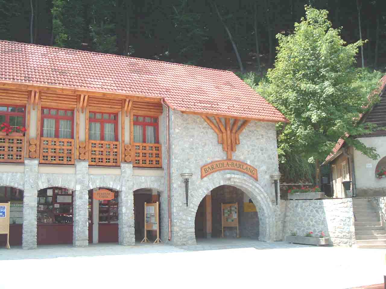 The entry of the stalagtite cave Jósvafő, Hungary